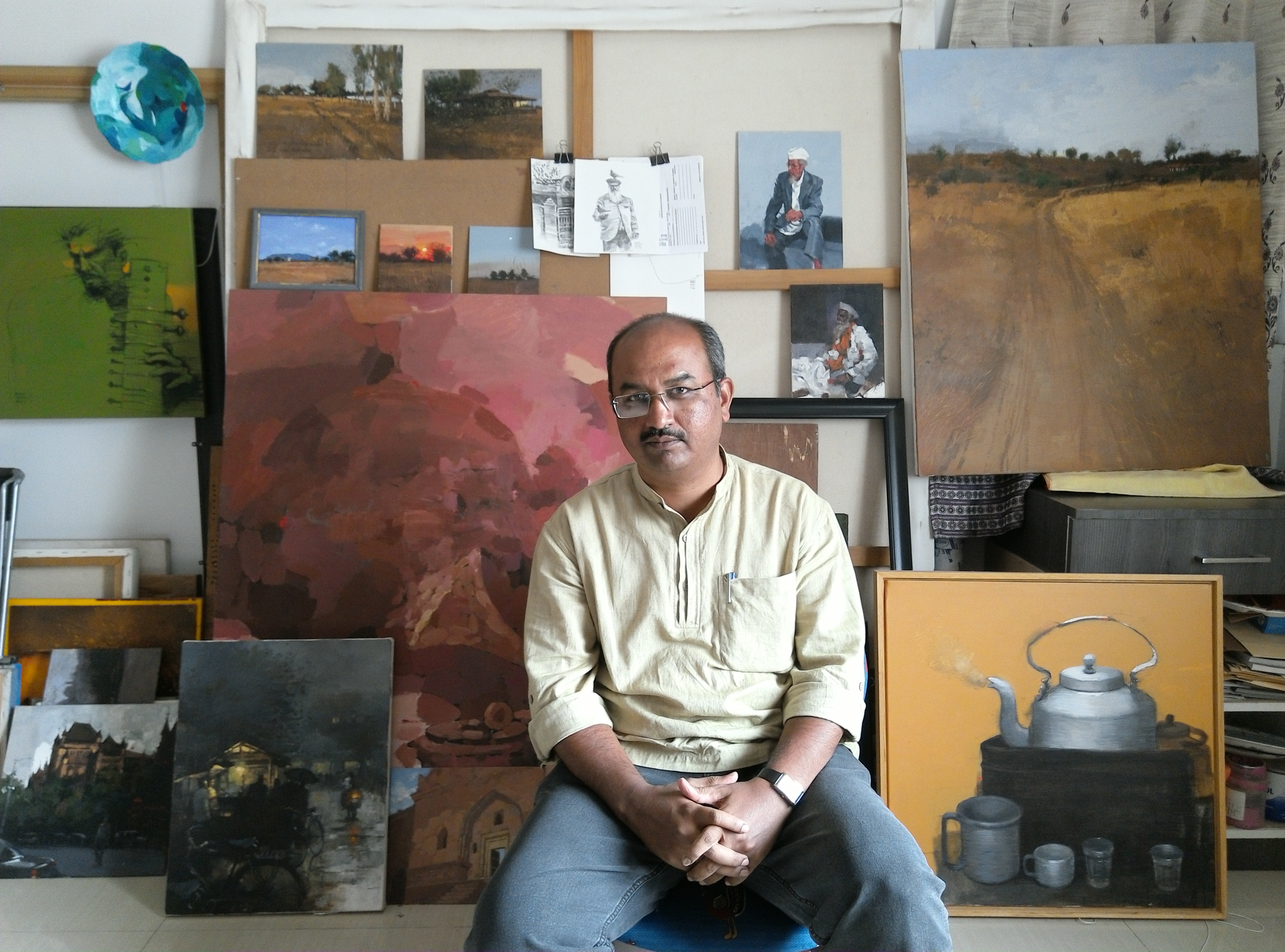 Artist Anwar Husain based in Islampur town of Maharashtra state in India with his paintings